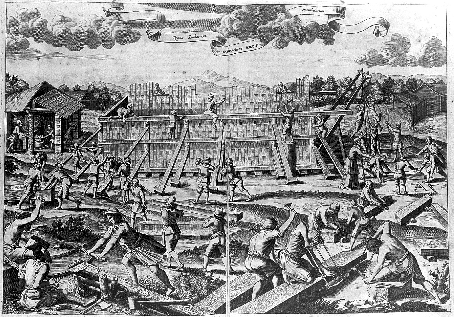 Building the ark. Rare Books Keywords: Athanasius Kircher